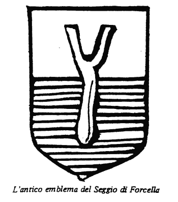 Antico Stemma del Seggio di Forcella